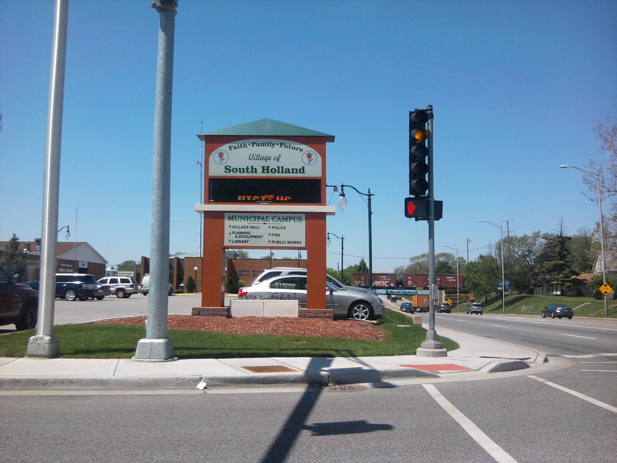 South Holland Sign